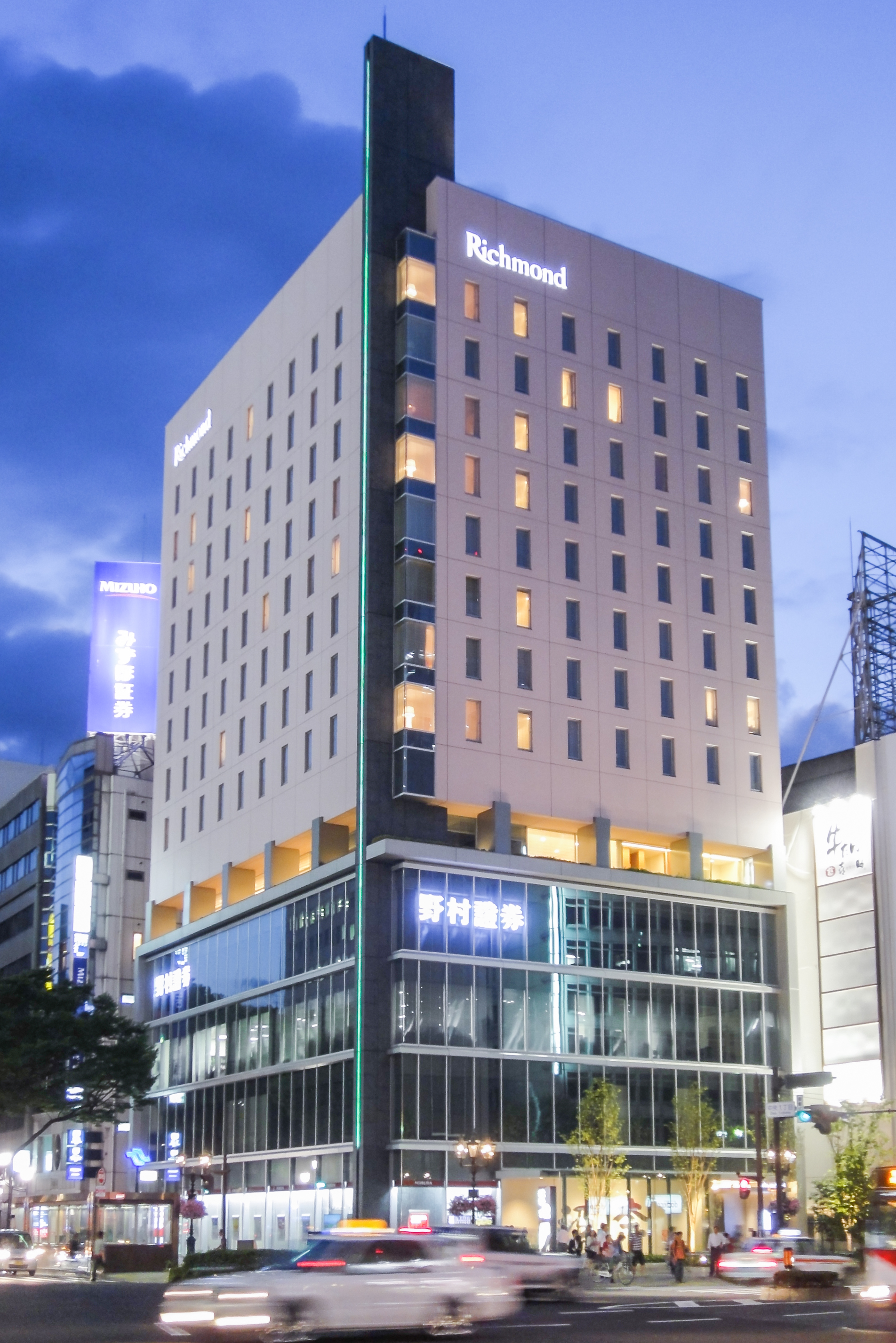 Photograph of Sendai Toho Building, including Richmond Hotel Premier Sendai-ekimae, in Aoba-ku, Sendai, Miyagi Prefecture, Japan.